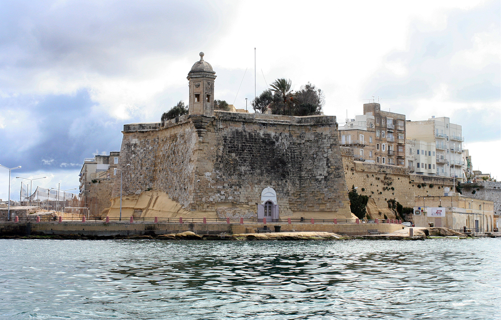 Malta, Senglea with Gardjola tower